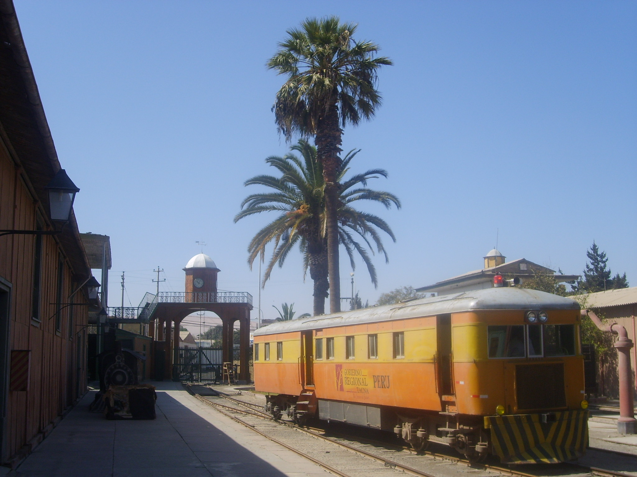 Railcar at a train station in Tacna, Peru. It is operated on regular passenger trains to Arica, Chile.